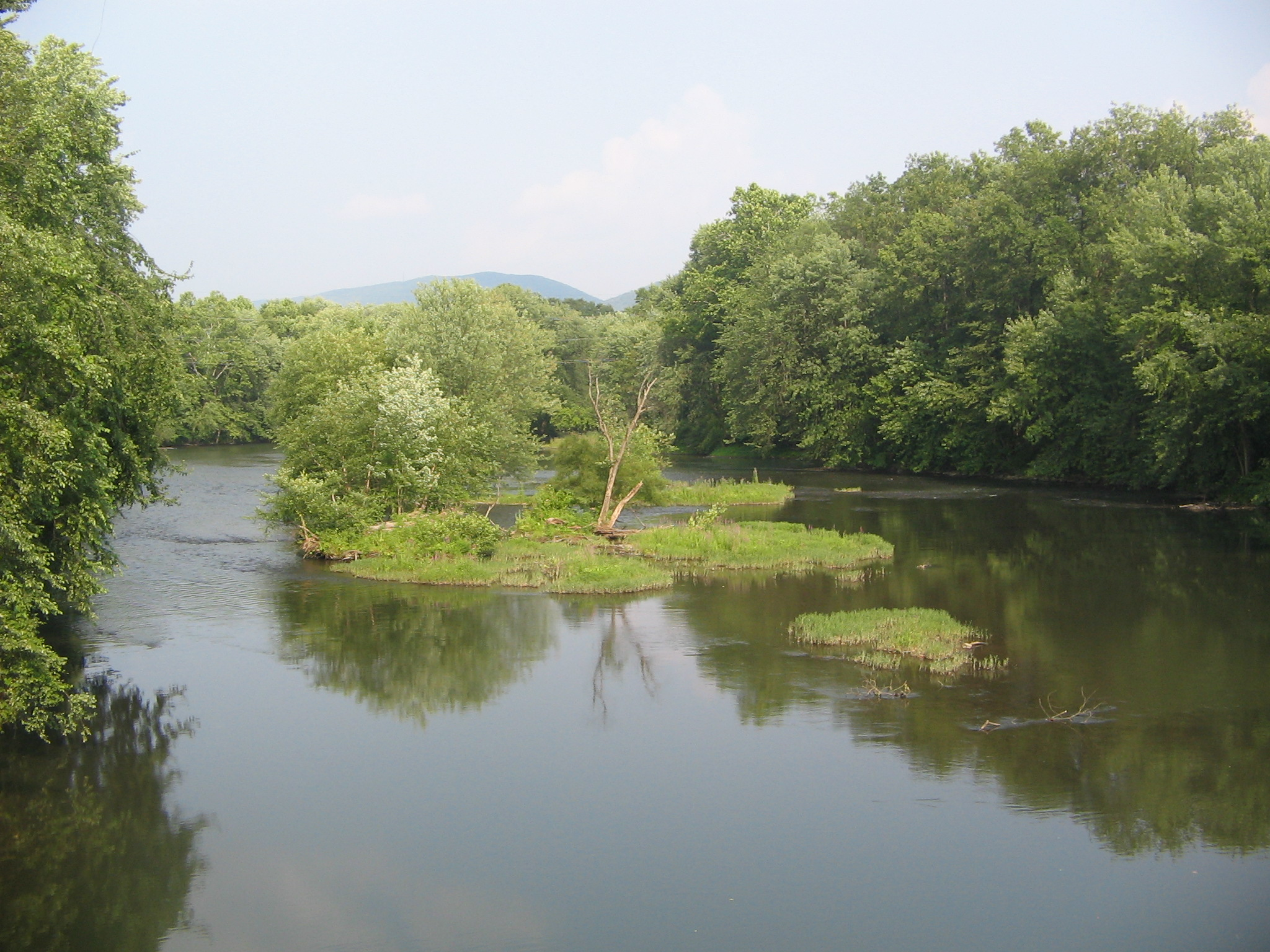 Bald Eagle Creek (West Branch Susquehanna River tributary) from PA Route 150, Clinton County, Pennsylvania, USA. I am pretty sure this is from the bridge between Flemington and Bald Eagle Township, looking downstream.